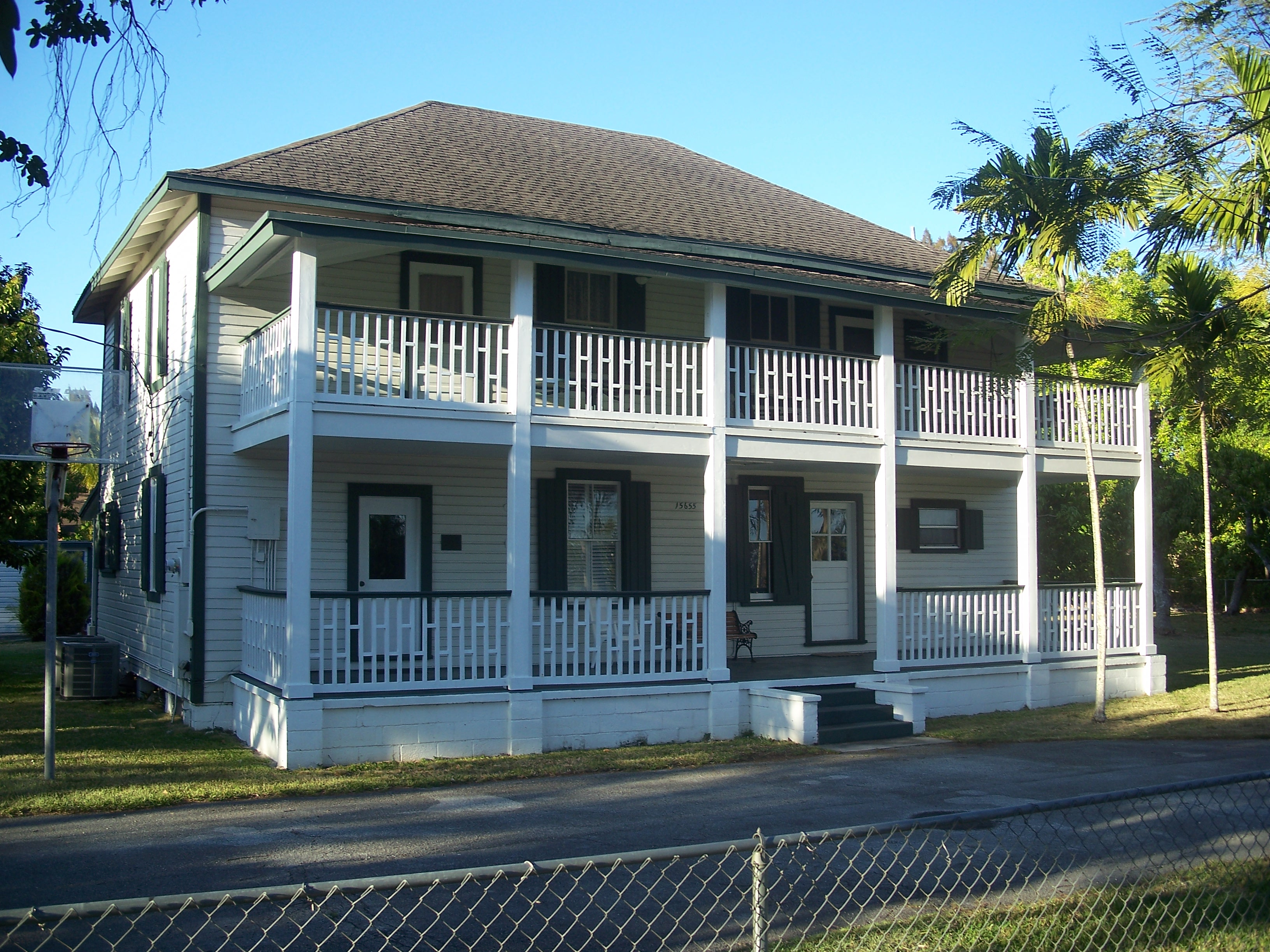 Goulds, Florida: Silver Palm Schoolhouse